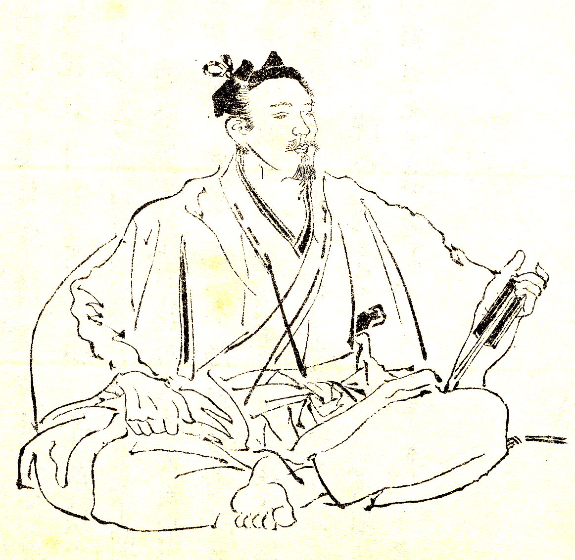 Ito Sukekiyo (伊東祐清) was a samurai in service to the Minamoto clan during the Genpei War of Japan's late Heian period.This picture was drawn by Kikuchi Yosai（菊池容斎） who was a painter in Japan.